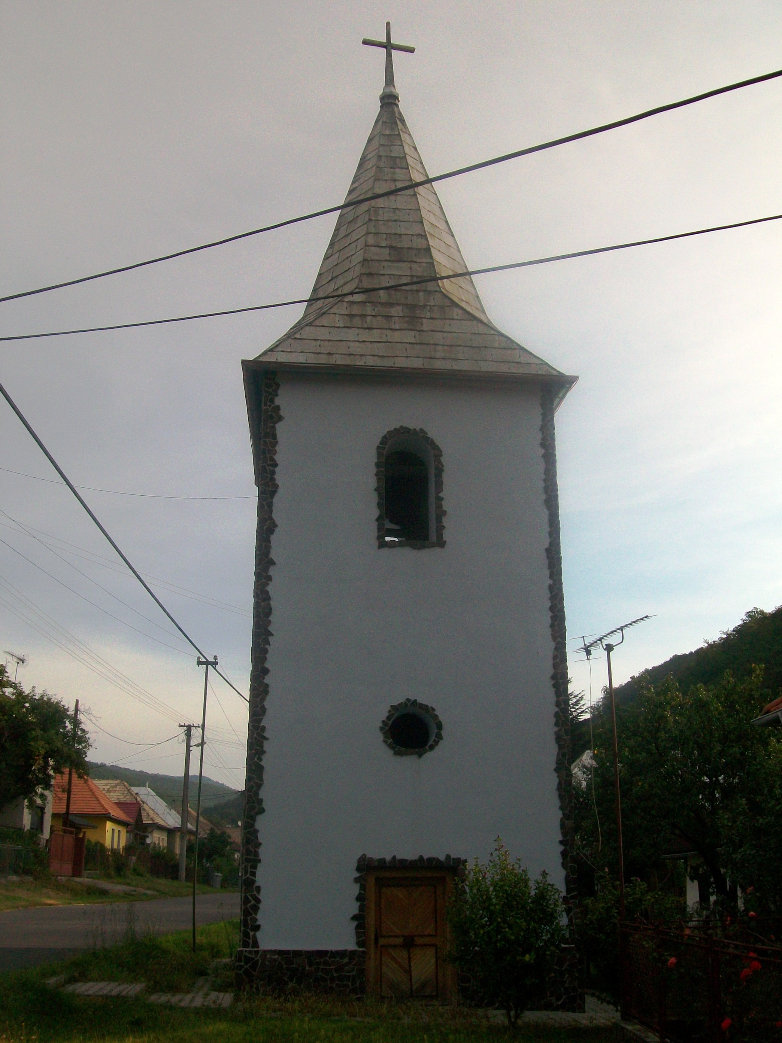 Belfry in the village KotmanováSlovenčina: Zvonica v obci Kotmanová